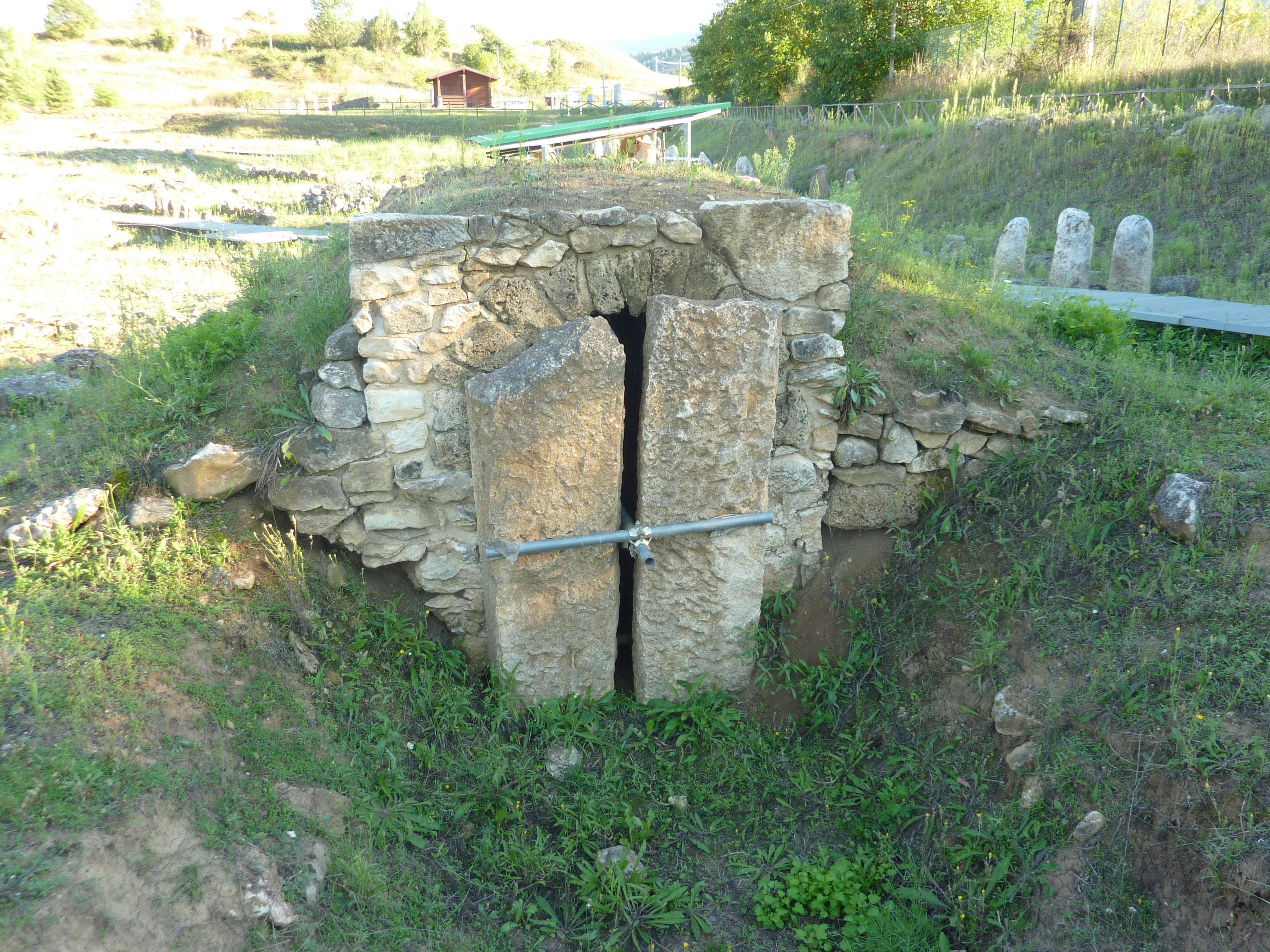 Fossa (AQ): Necropoli